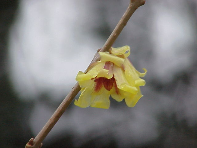 Species: Chimonanthus praecox Family: Calycanthaceae Image No. 1